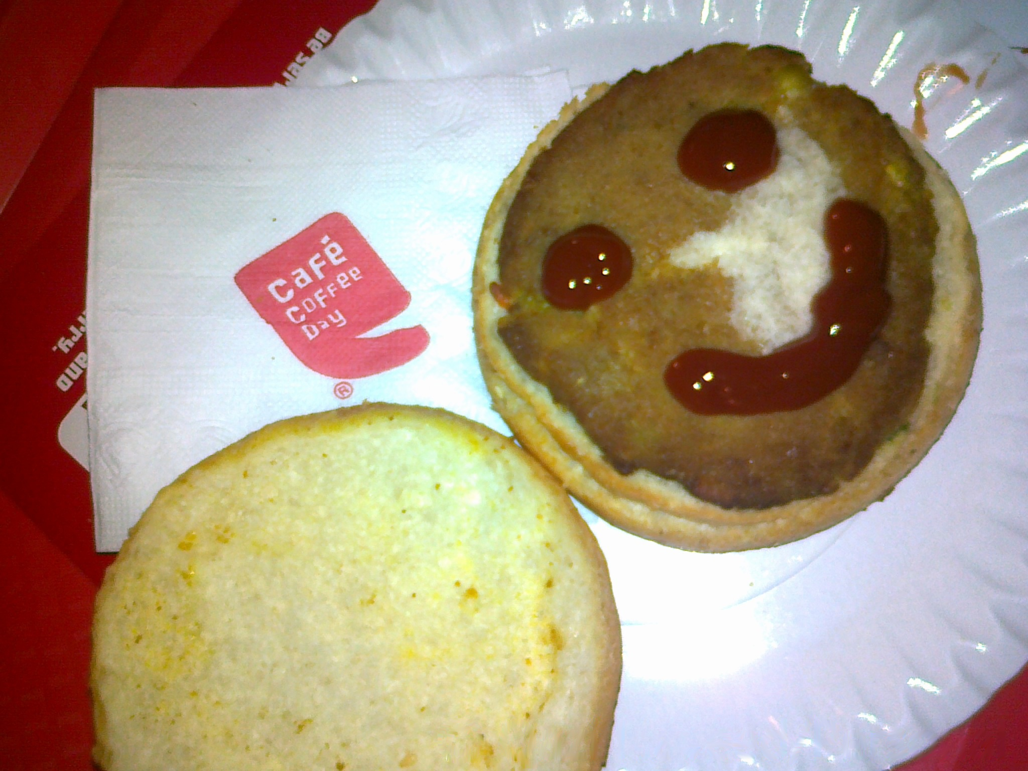 Burger At Cafe Coffee Day, Amity University, Noida